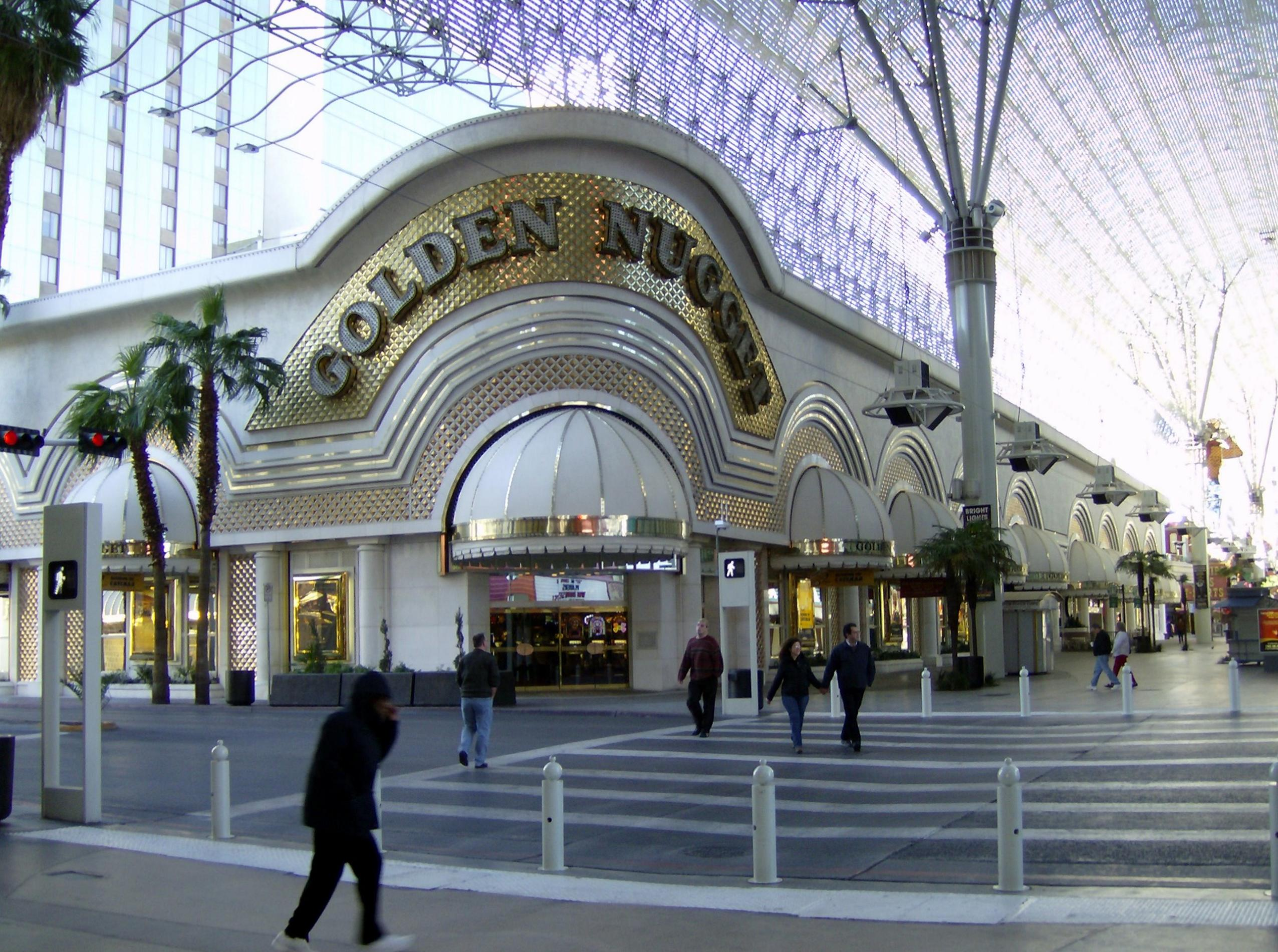 Golden Nugget under the Fremont Street Experience canopy during the day in downtown Las Vegas